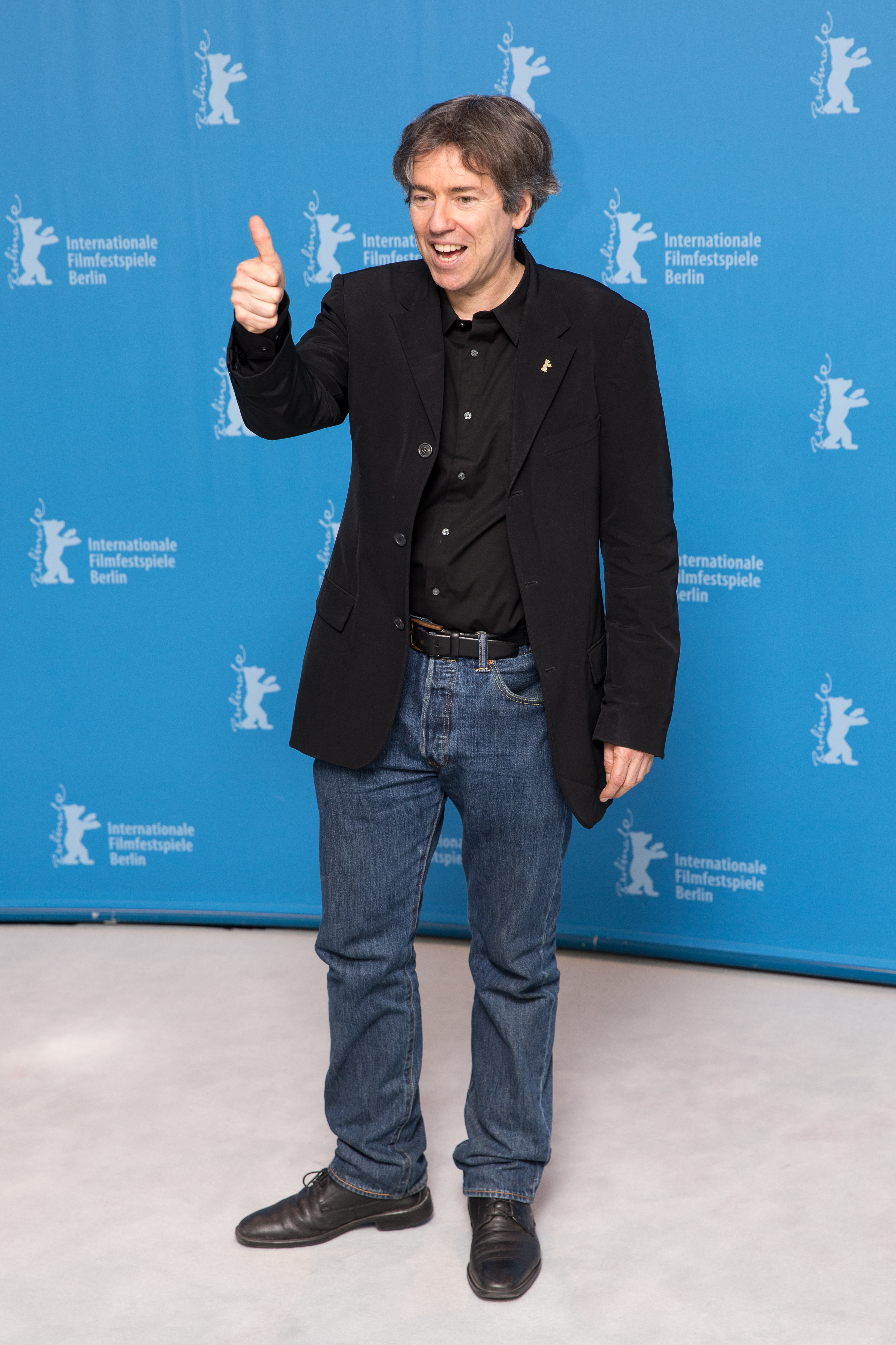 Andres Veiel presenting Beuys, Berlinale 2017